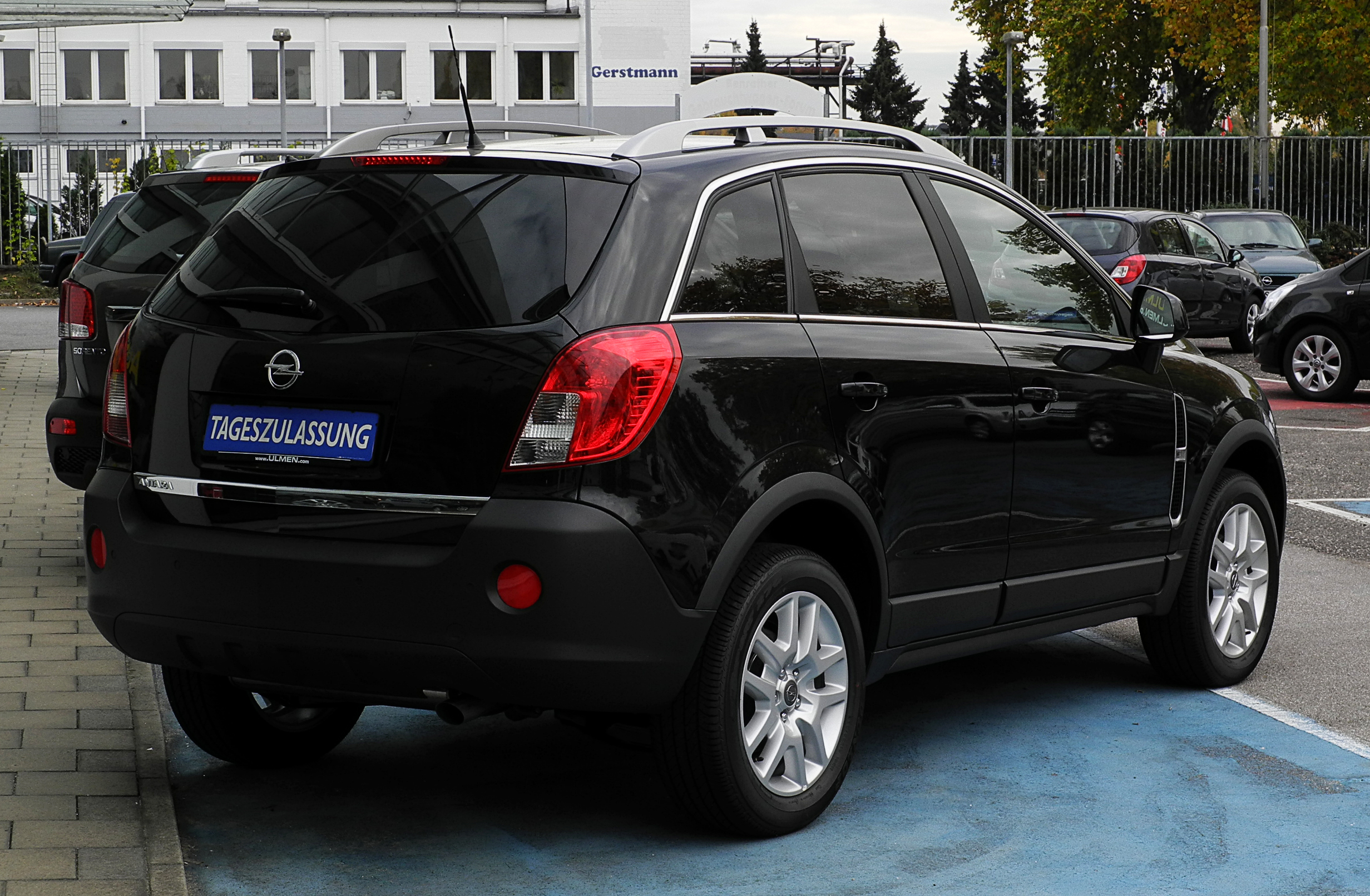 Opel Antara 2.4 4x4 Design Edition (Facelift)